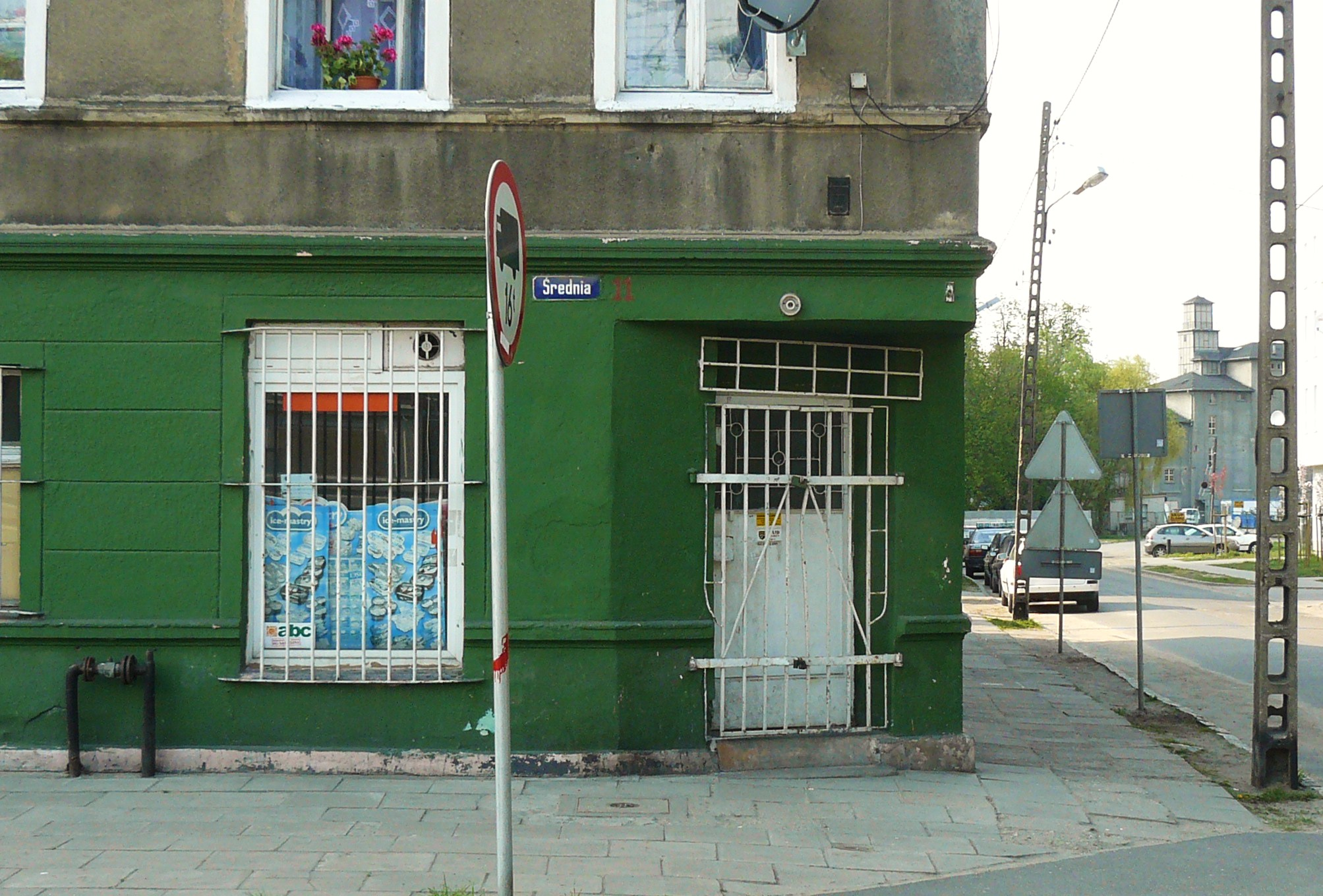 Poznan - Nadolnik/Srednia Street.